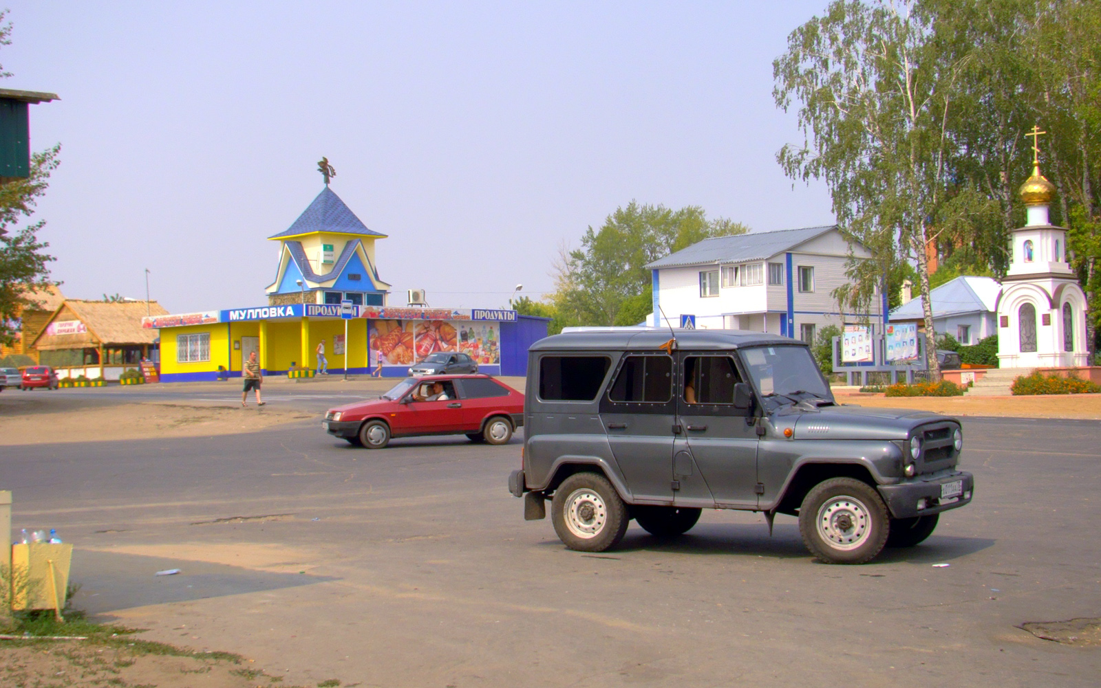 Mullovka City (Ulyanovsk Region).